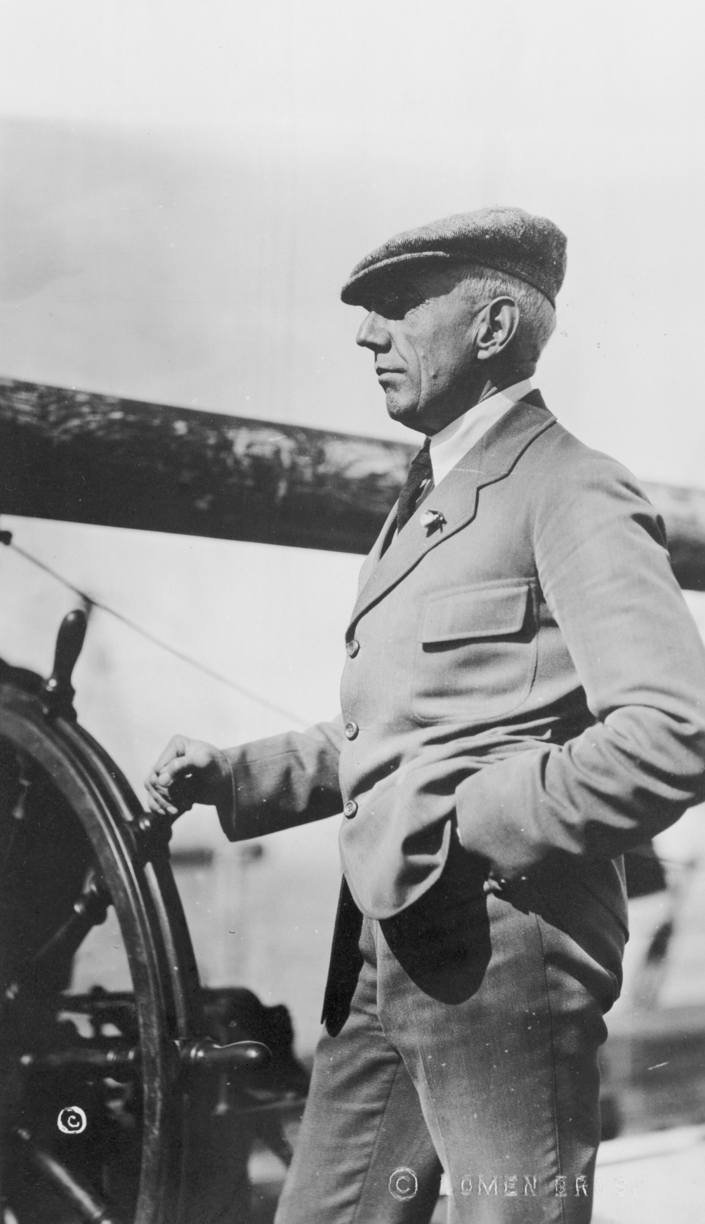 Capt. Roald Amundsen at wheel leaving home for North Pole